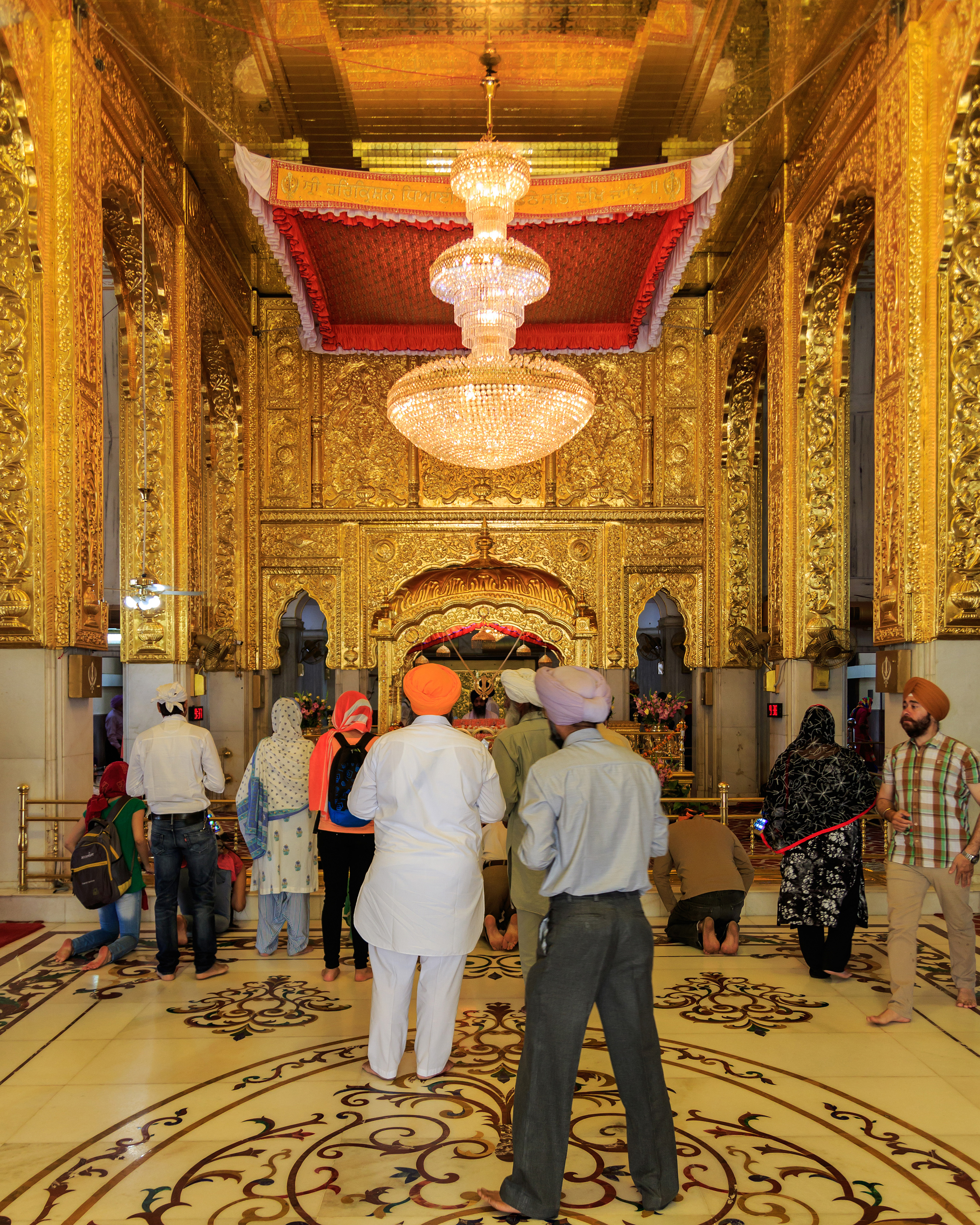 Gurudwara Bangla Sahib (Sikh temple) in New Delhi, India.